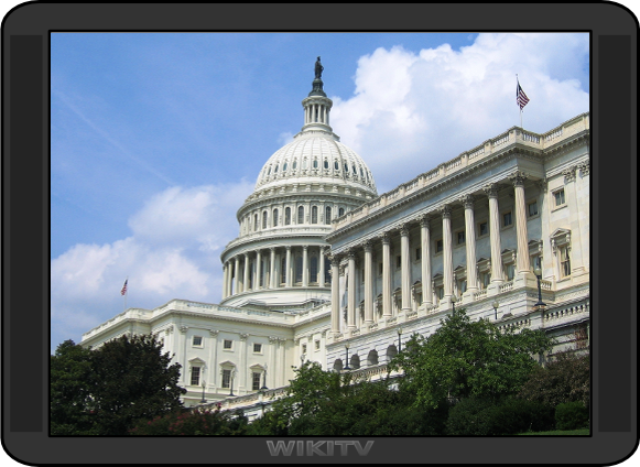 Aspect Ratio 4:3